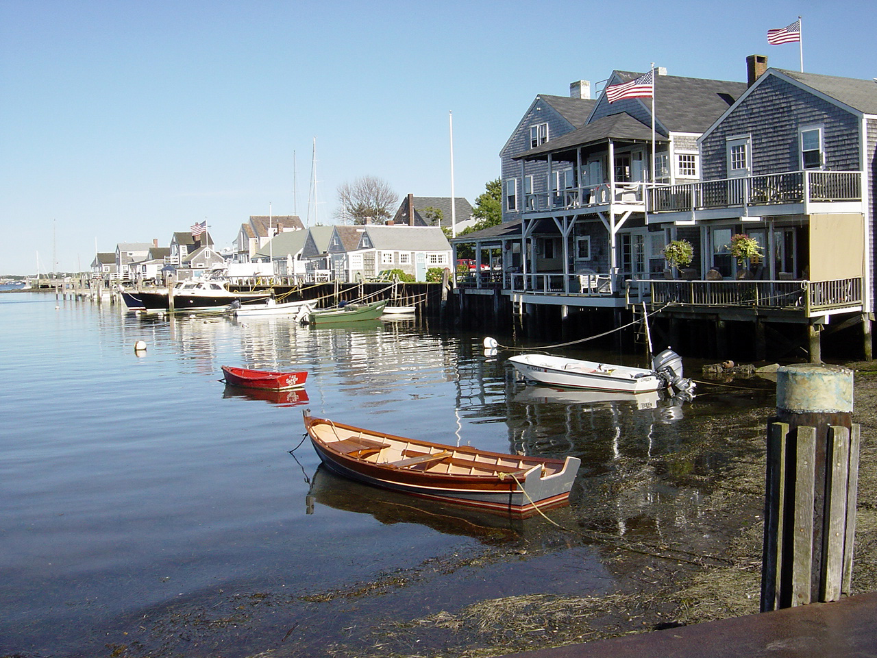 Nantucket, Massachusetts. Photo taken by Bobak Ha'Eri, August 2004. Please observe license and properly cite in use outside Wikipedia.